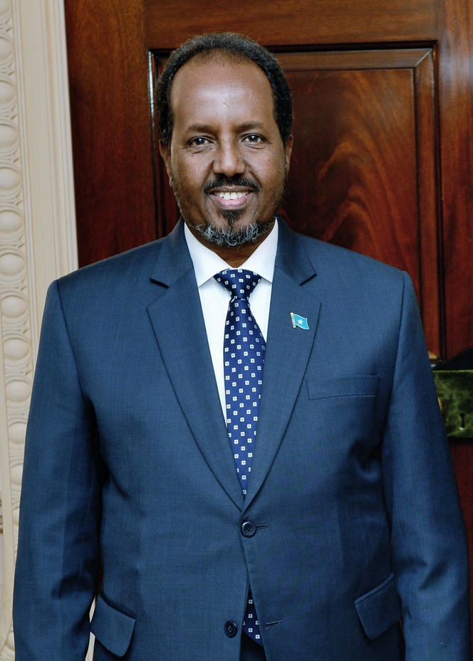 Somali President Hassan Sheikh Mohamud, meeting with former Secretary of State Hillary Rodham Clinton in Washington D.C. on January 17, 2013.